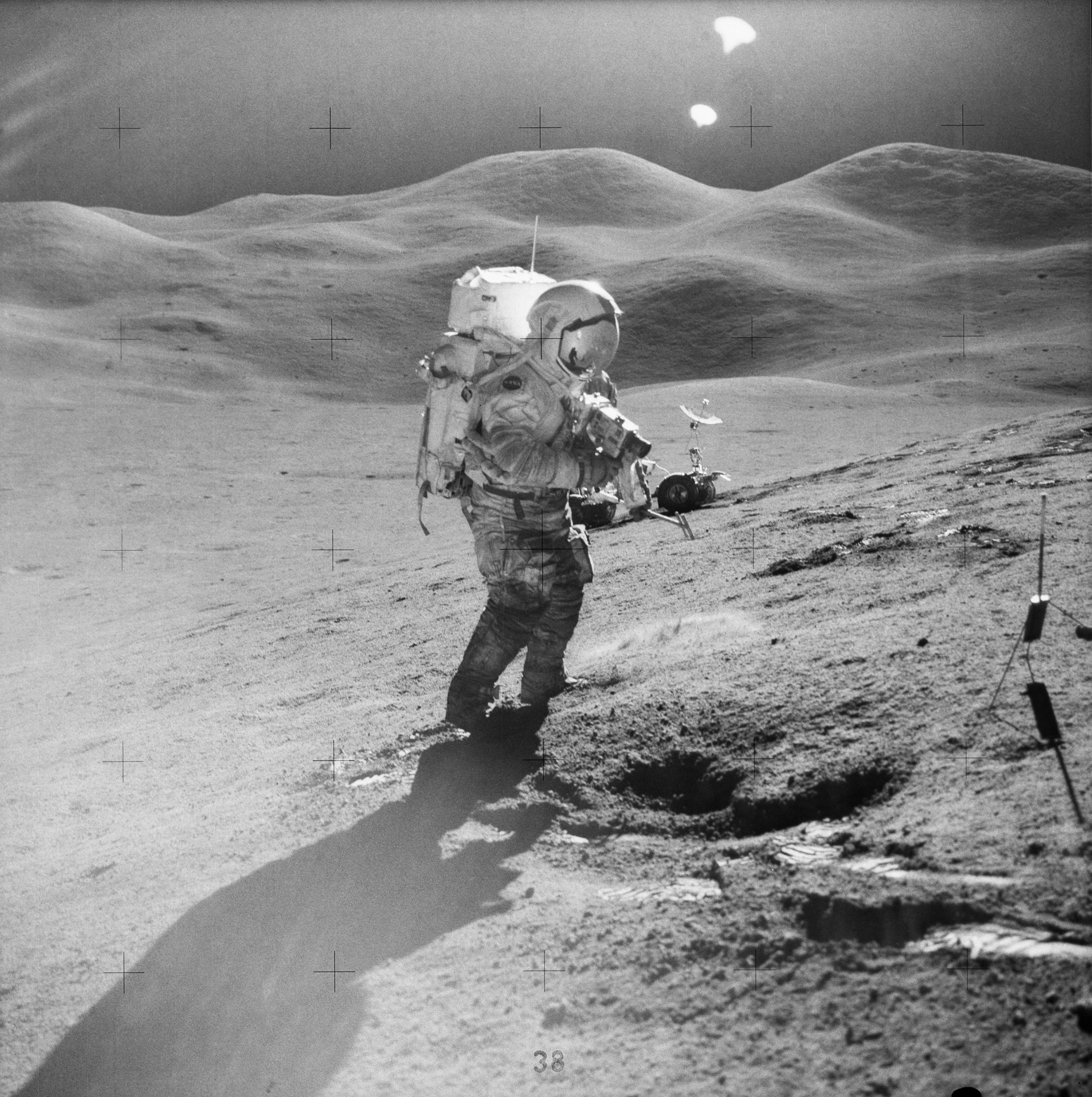 Dave Scott on the slope of Hadley Delta